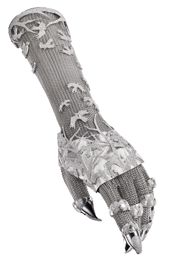 Contra Mundum, also known as The Glove, crafted from 1,000 grams of 18-carat white gold and set with 5,000 pave white diamonds. Created by Shaun Leane.